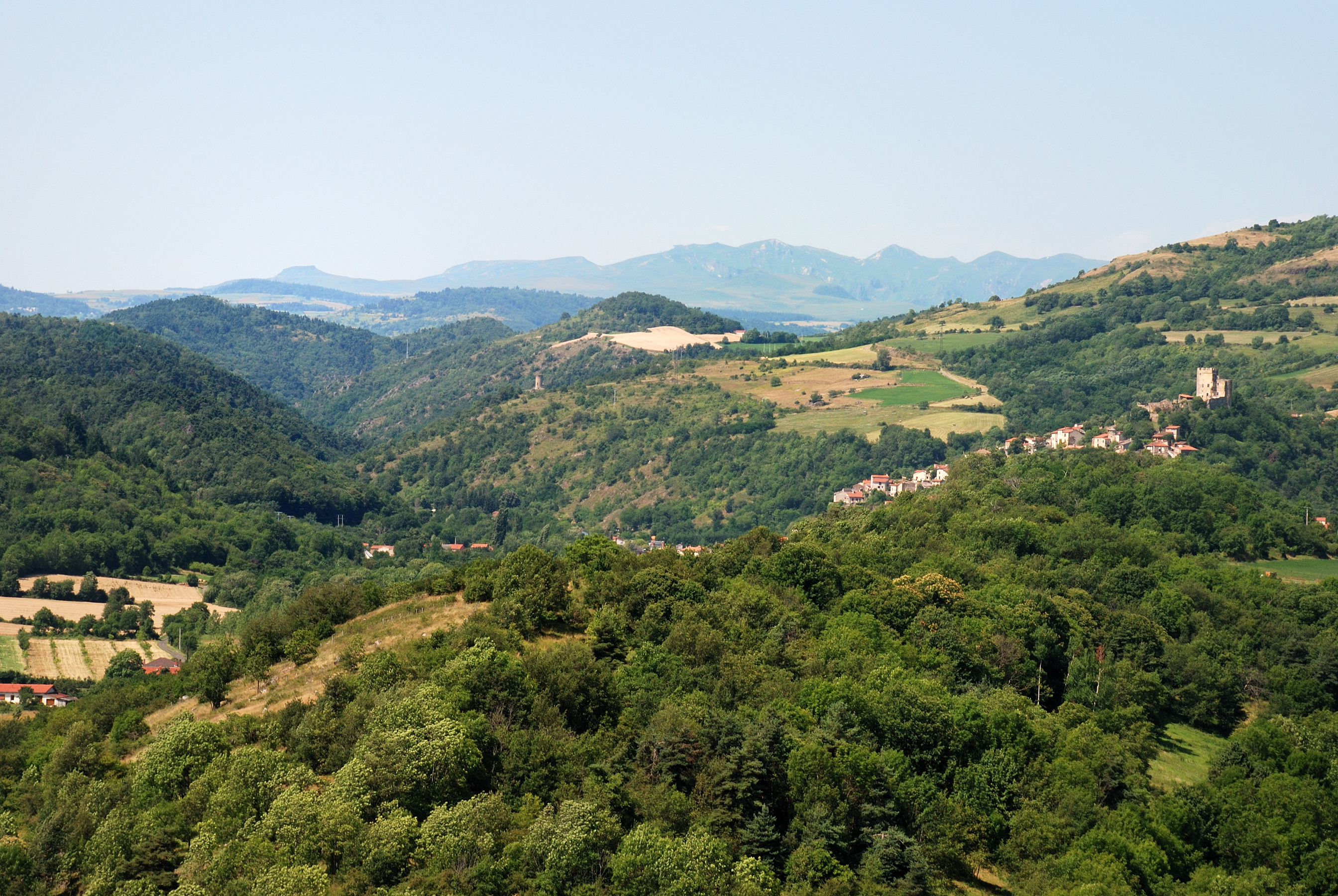 View on the valley de la Couze Chambon, with the village de Montaigut-le-Blanc on the right and the Puy de Sancy in the background, (Puy-de-Dôme, France). Picture taken near Champeix Translations in other languages are welcome.